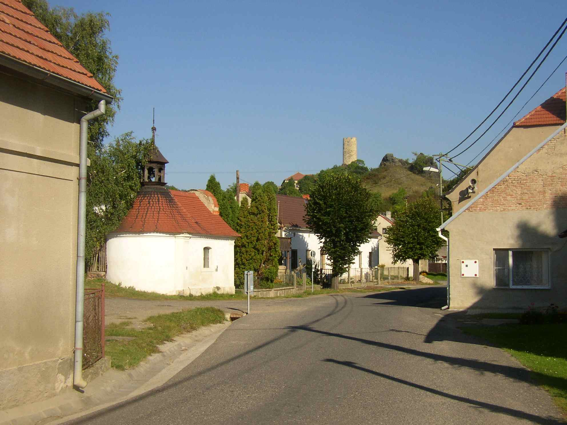 Vlastislav, Czech Republic Central part of the village, Skalka castle in the background. Photo taken by Miaow Miaow in September 2005, PD-self